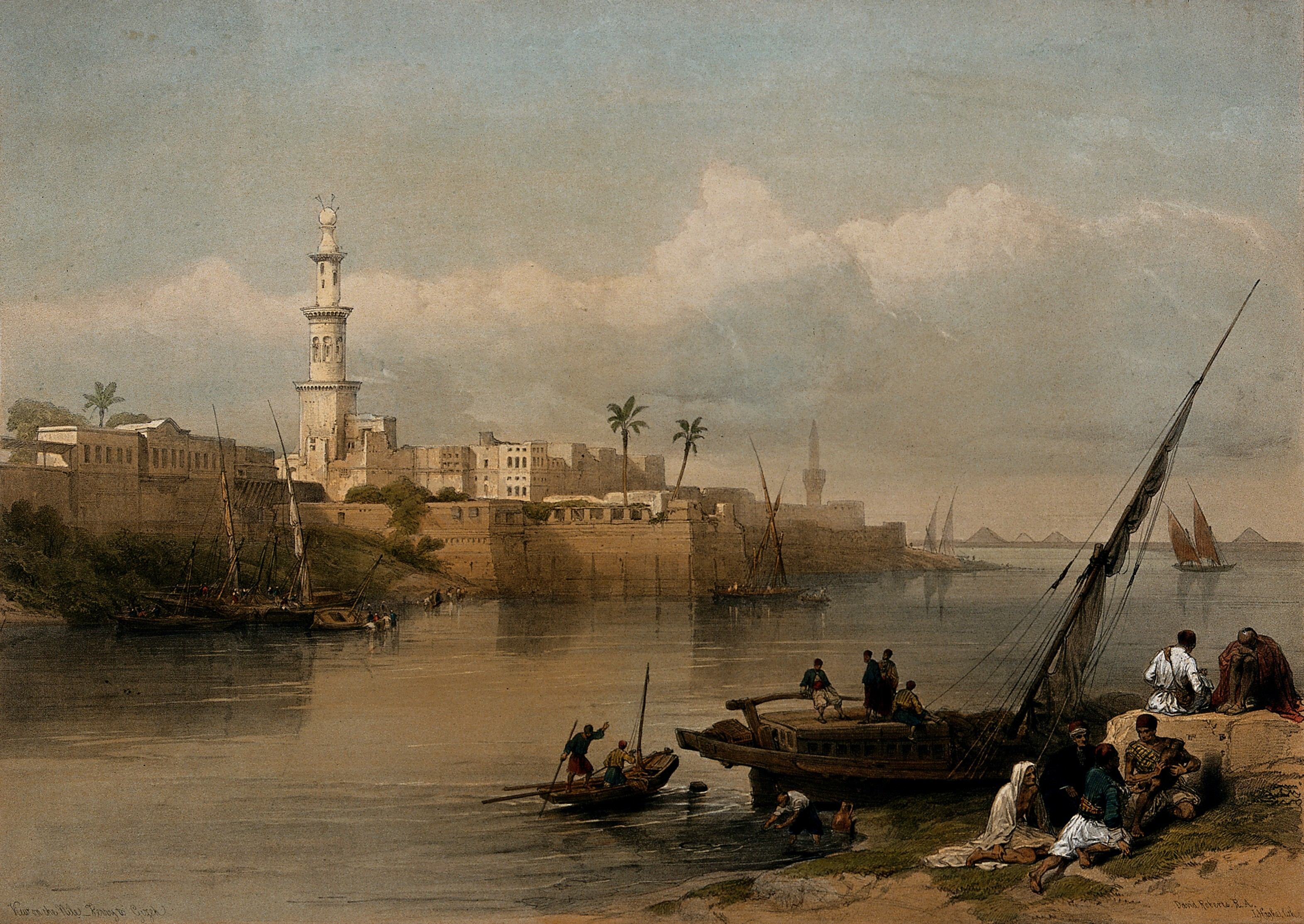 The ferry to Gîza across the Nile, Egypt. Coloured lithograph by Louis Haghe after David Roberts, 1849. Iconographic Collections Keywords: David Roberts; Louis Haghe